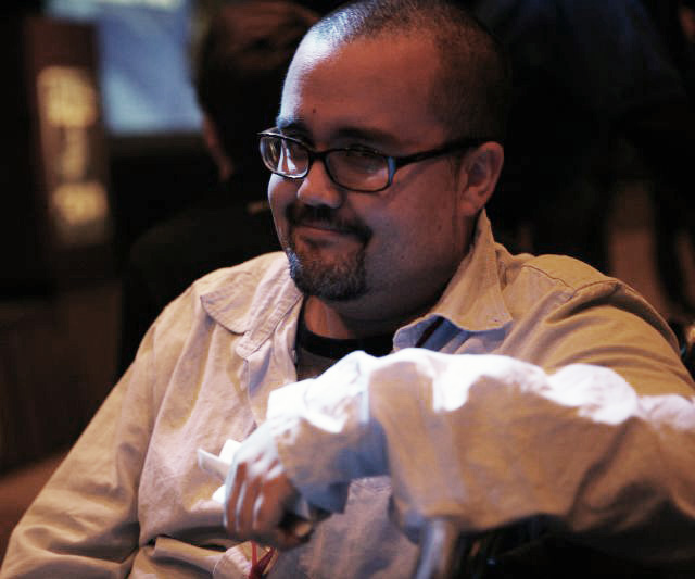 Lucas Online's Pablo Hidalgo would present the award for Best Animation. Winning is Anton Bogaty for IG-88: The Dancing Robot.